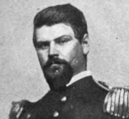 This is a crop of a photo of Colonel Timothy M. Bryan, Jr. of the 18th Pennsylvania Cavalry in the American Civil War. Before assuming command of the 18th during May 1863, he was a West Point graduate in the regular U.S. Army.